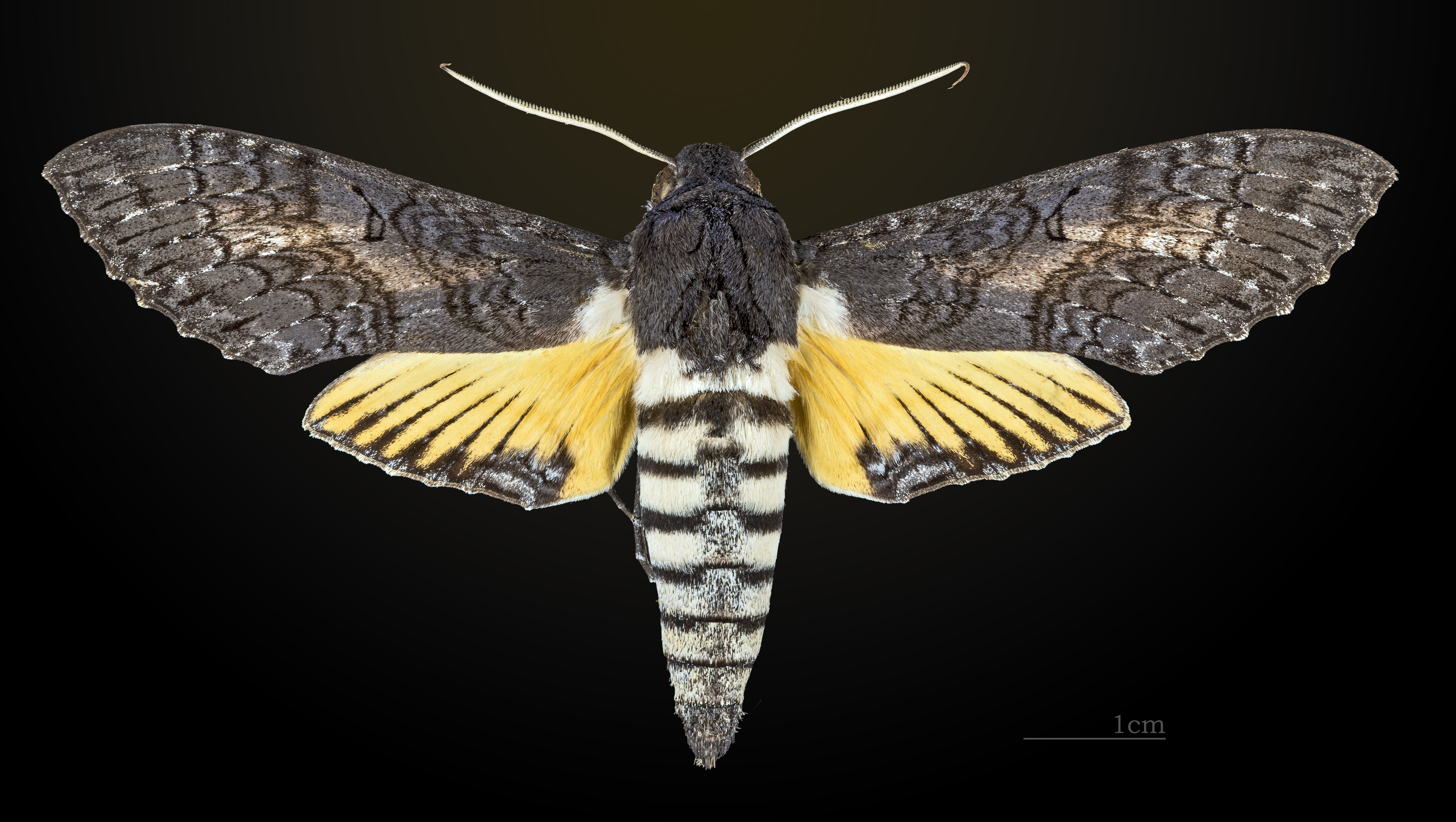 Isognathus caricae - Dorsal side Collection of the Mathematician Laurent Schwartz